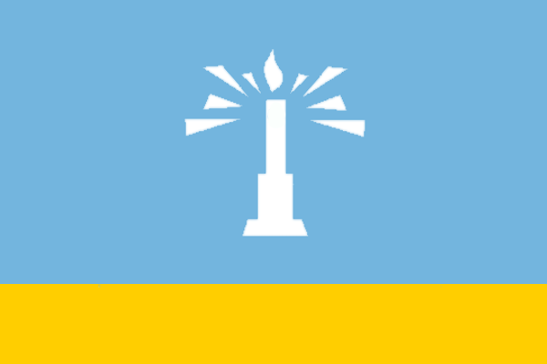 Flag of Alexandria governorate